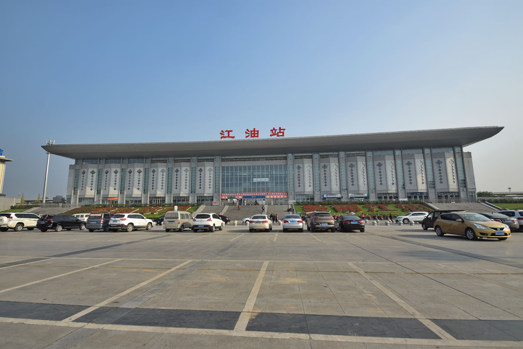 Jiangyou Railway Station